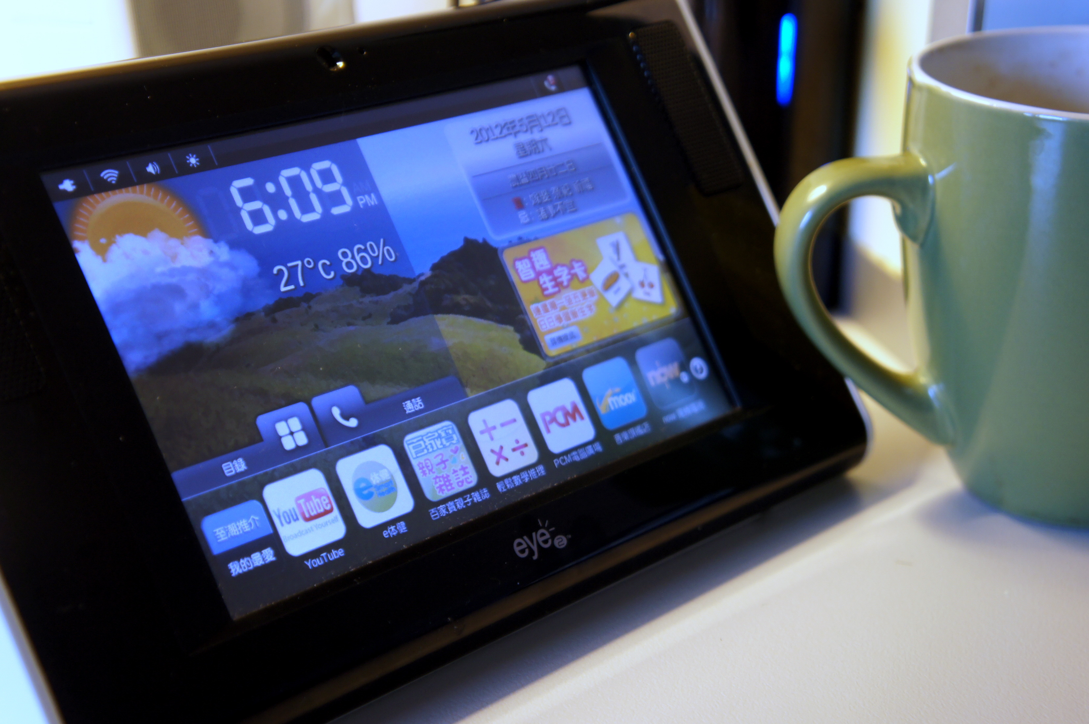 Hong Kong Pacific Century Cyber Works (PCCW) eye2 tablet computer with a 7" display.